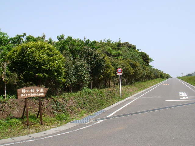 Camellia Promenade, Izu Oshima.